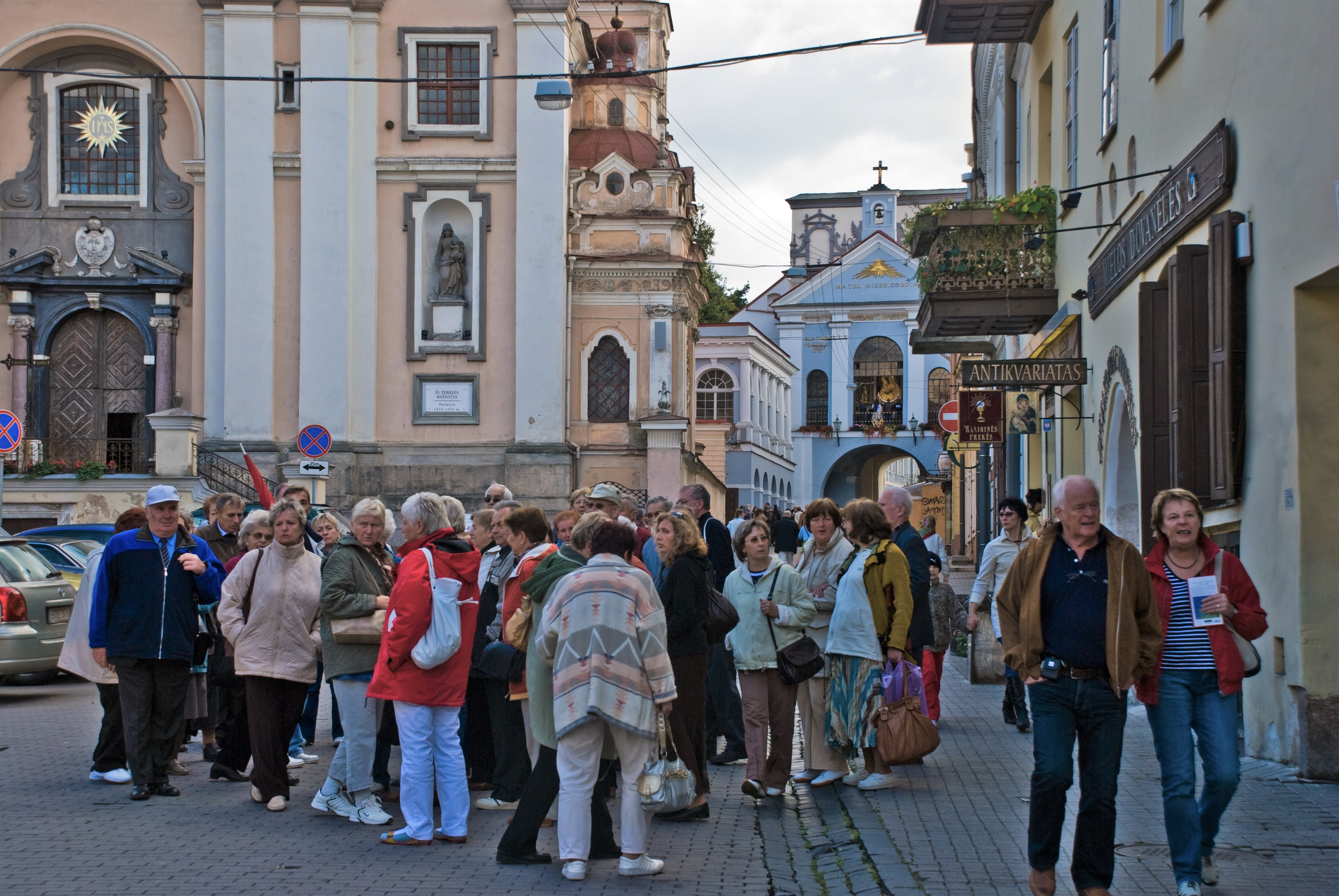 Tourism has certainly reached Vilnius - Old Town, Sept. 2008